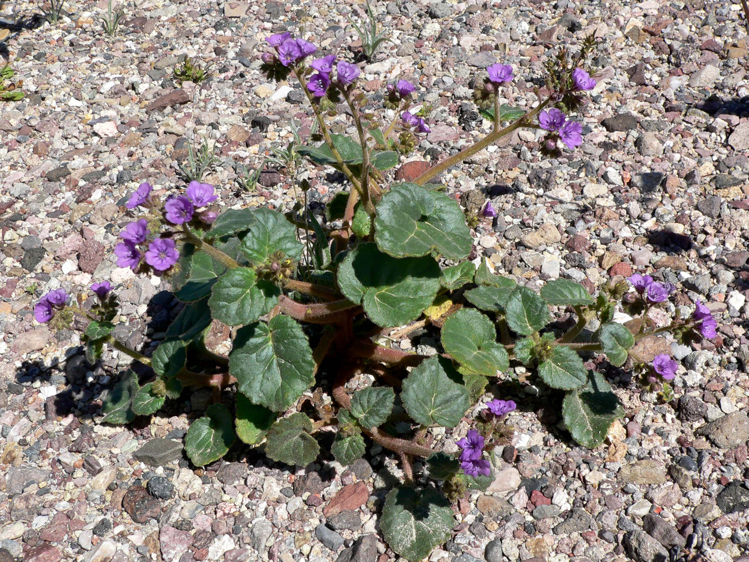 Photo of Phacelia calthifolia near Shoshone, California